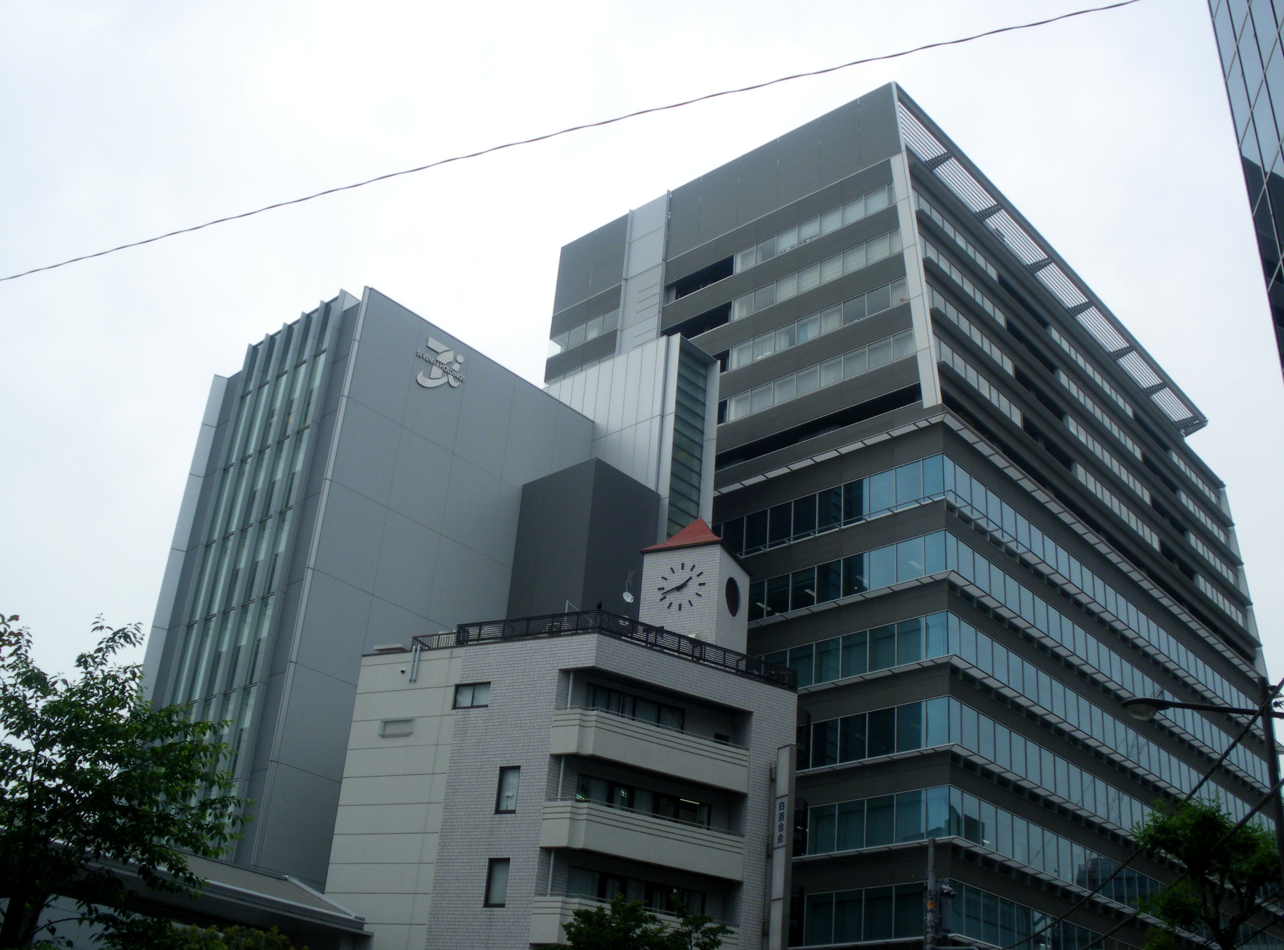 A photo of Seven & I Holdings Co. (the holding company of 7-Eleven, Ito Yokado, Seibu Department Stores and several other retail companies) head office, Nibancho, Chiyoda-ku, Tokyo, Japan.